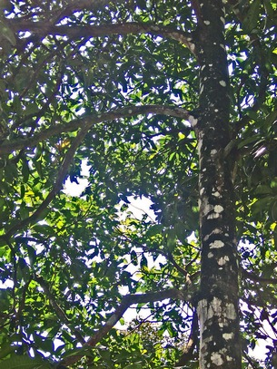 Mangifera foetida branching, Situgede, Bogor, West Java, Indonesia